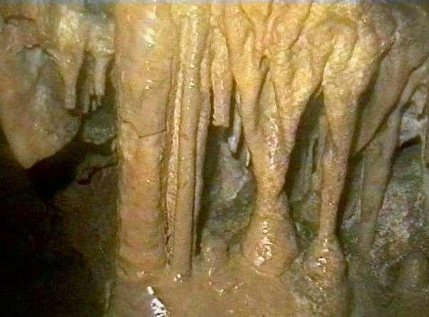 Stalactites and [Stalagmite